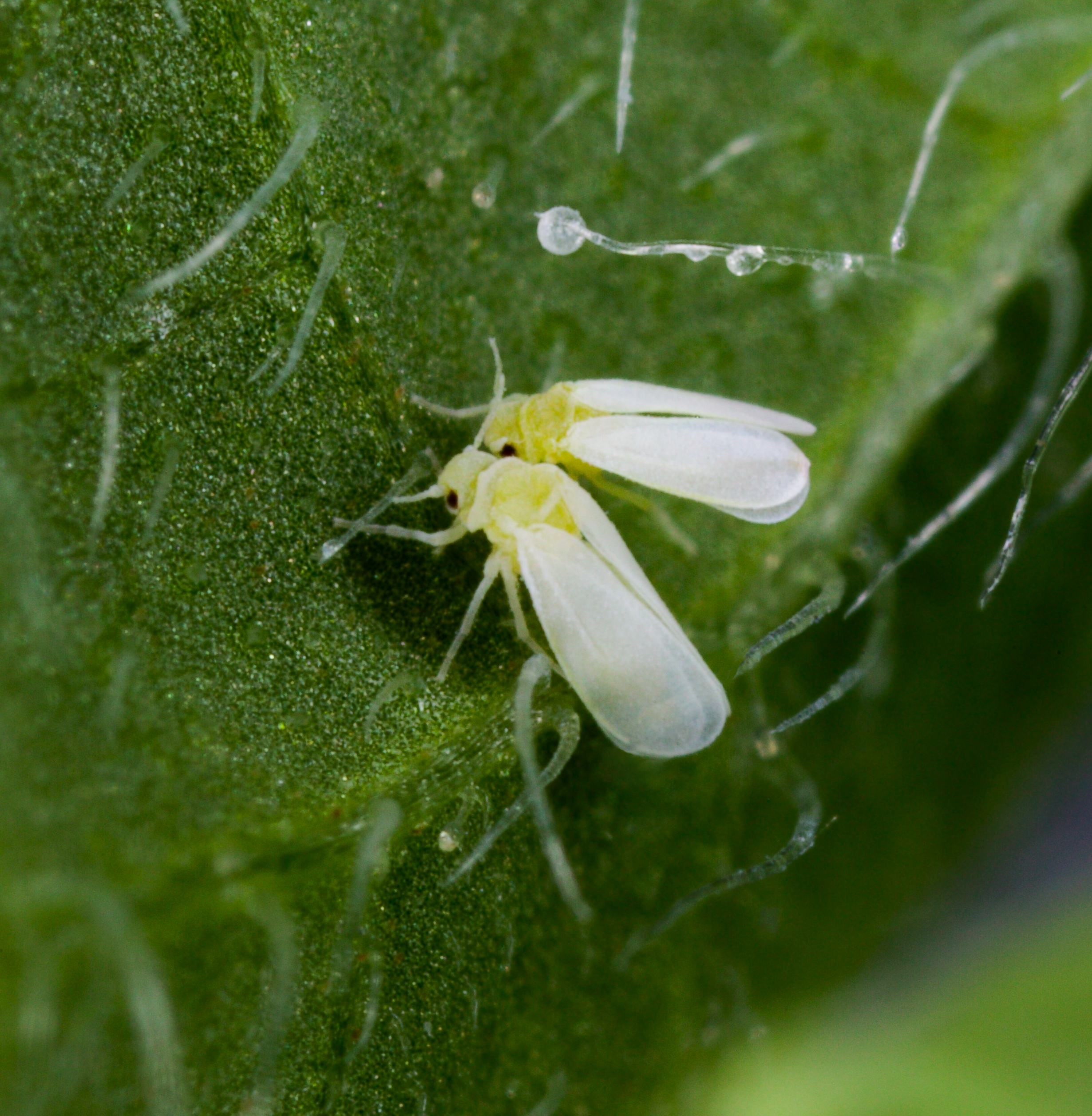 Adults of Bemisia tabaci (Rhynchota: Aleyrodidae)